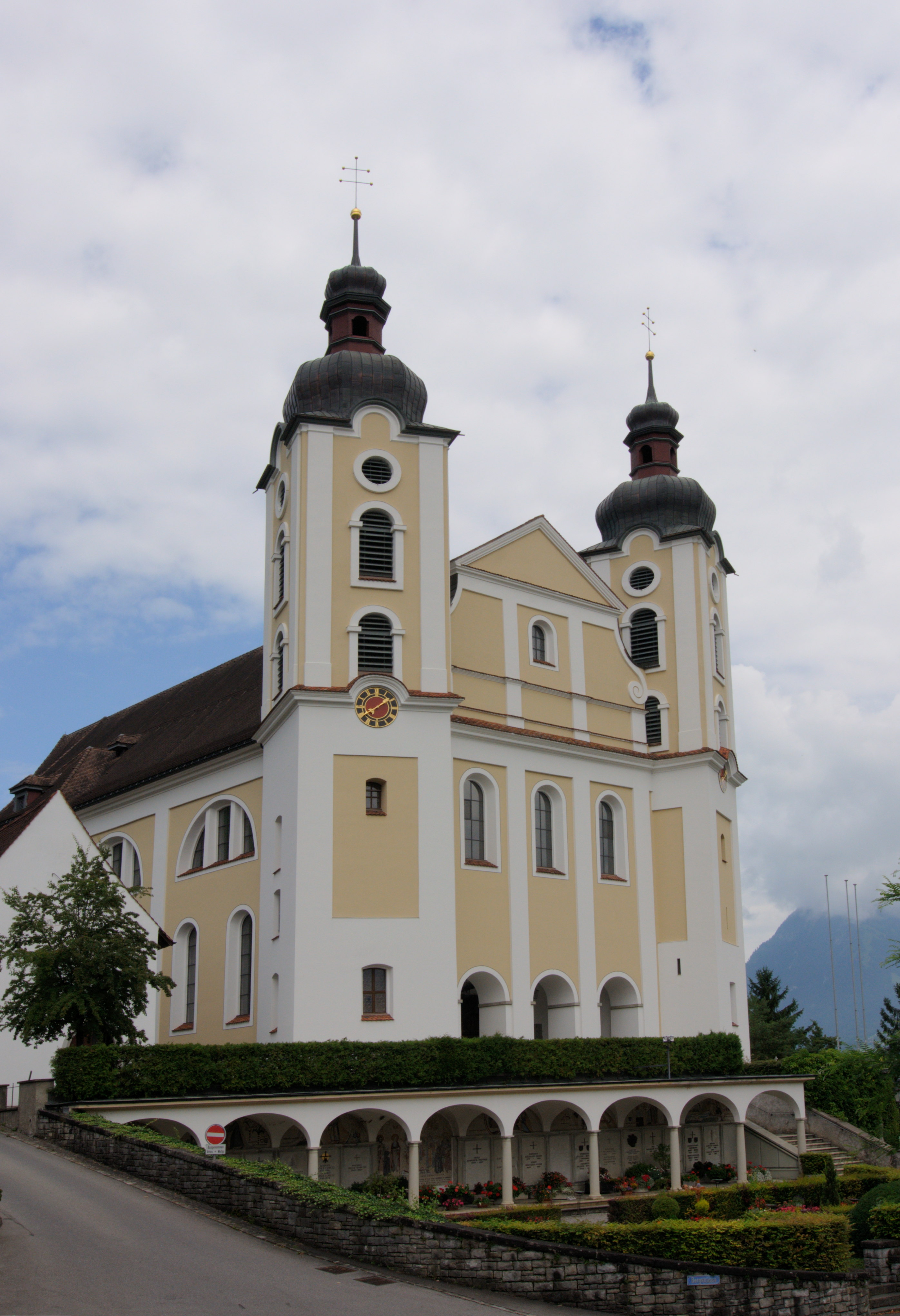 Baroque parish church of St. Peter and Paul in Sarnen